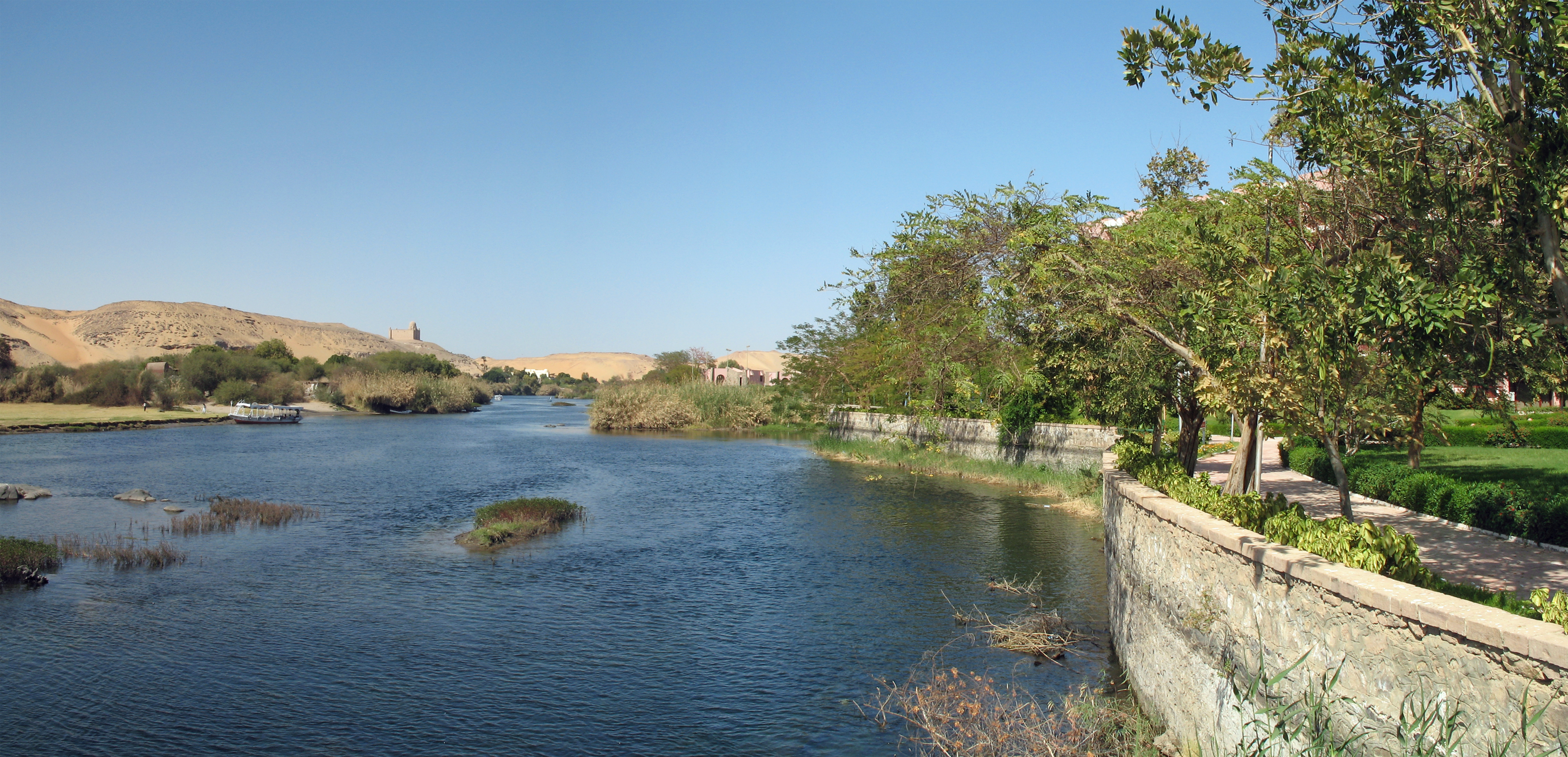 Aswan (Egypt): a branch of the Nile near Isis Island